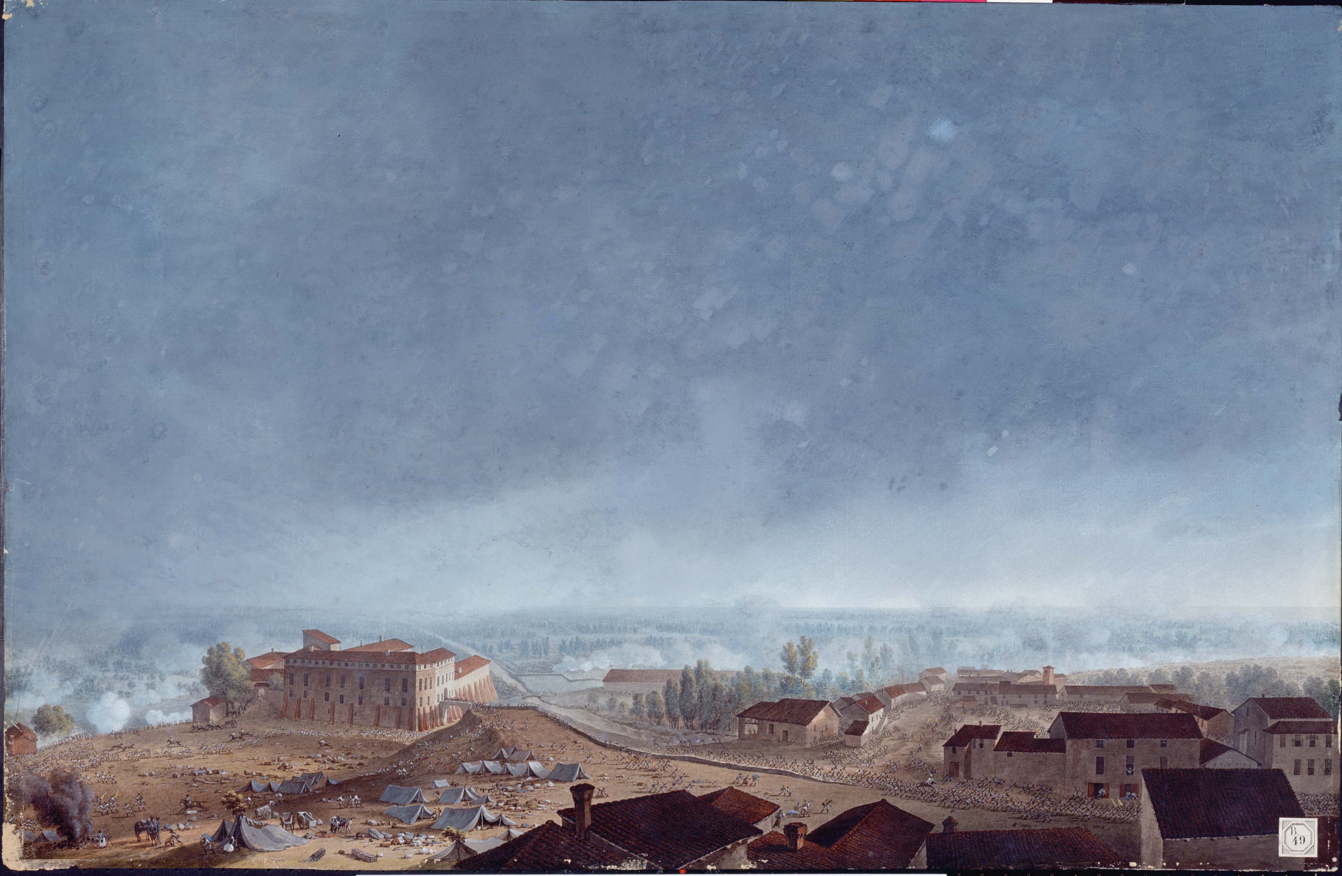 Giuseppe Pietro Bagetti's Battaglia di Fombio (Fombio's Battle, 8 May 1796)